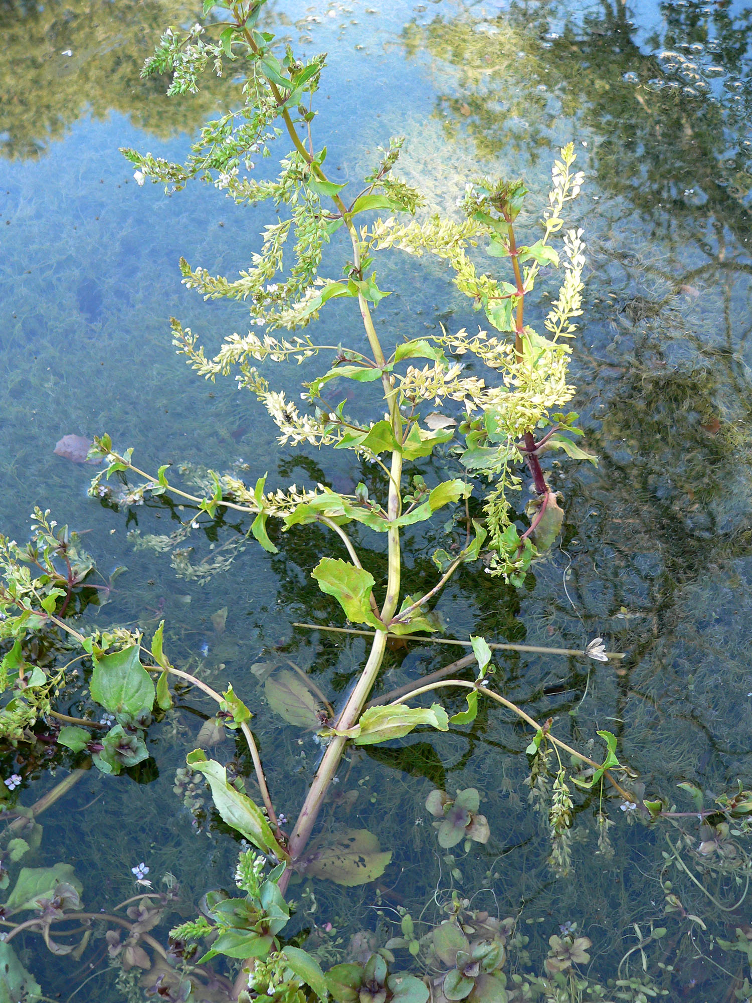 Veronica anagallis-aquatica in water at White Rock Spring, Red Rock Canyon, Spring Mountains, southern Nevada (elev. about 1500 m)